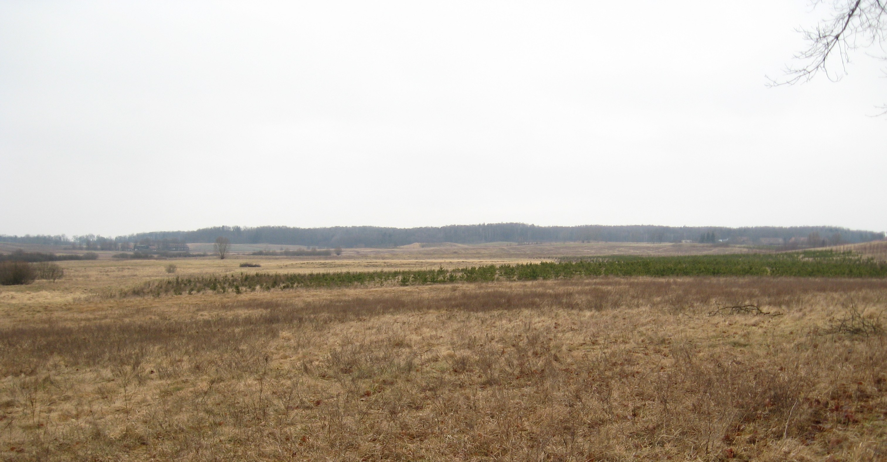 Between Worpławki and Reszel